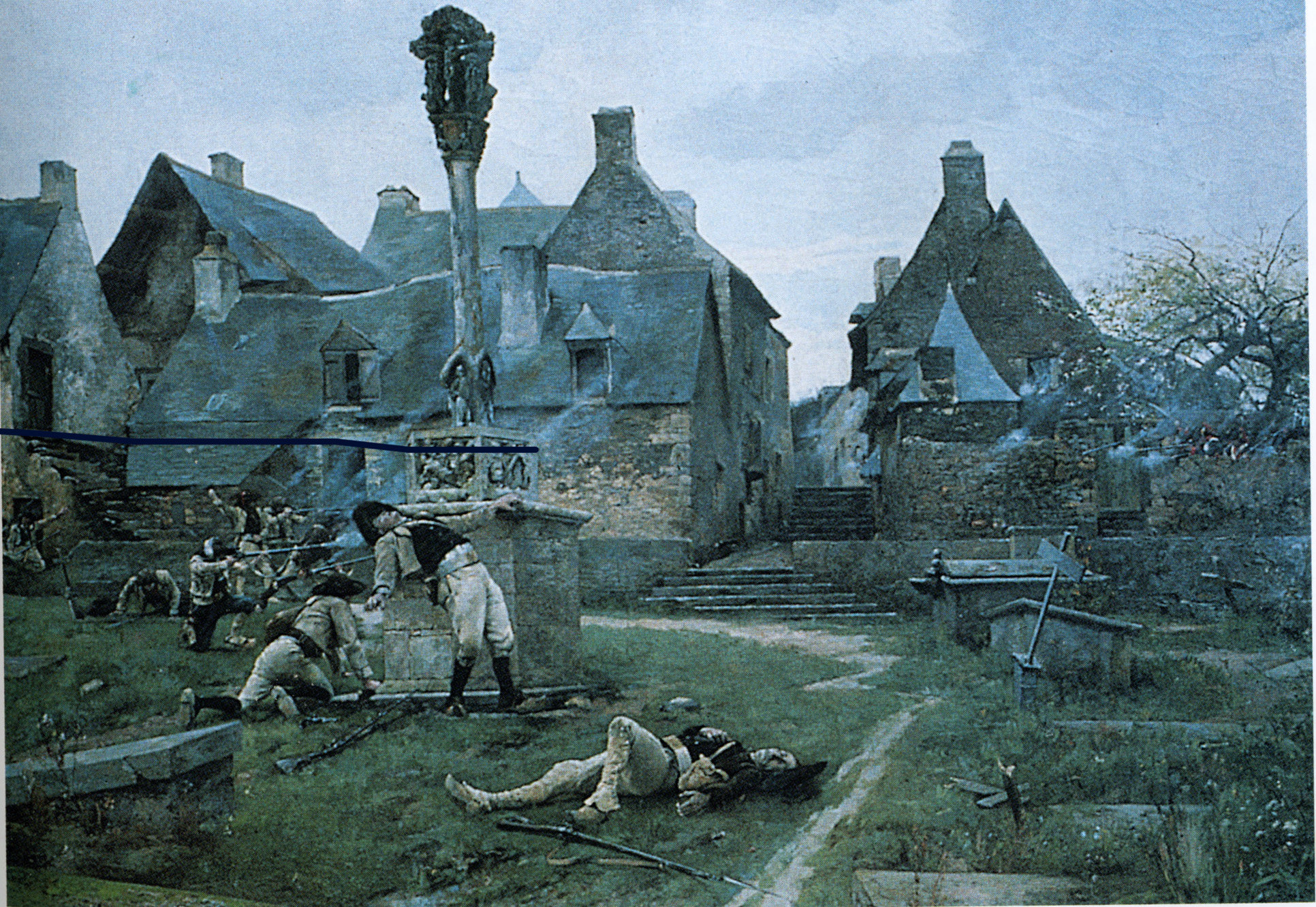 In 1793, the castle of Rochefort-en-Terre was attacked by royalist insurgents. The small city of Rochefort used to be a stronghold of republican sympathizers. Three patriots died defending it in the name of the Republic, causing the village to be called Roche-des-Trois for a couple of years. The scene shows Chouan troops (on the left) facing the fire of Republican defenders on the right. The blossoming fruit-tree arching over the Republicans suggests it is spring-time for a new-born Republic that shows the promise of later fruits, while the calvary behind which the enemy is sheltering symbolizes the catholic values for which they fight